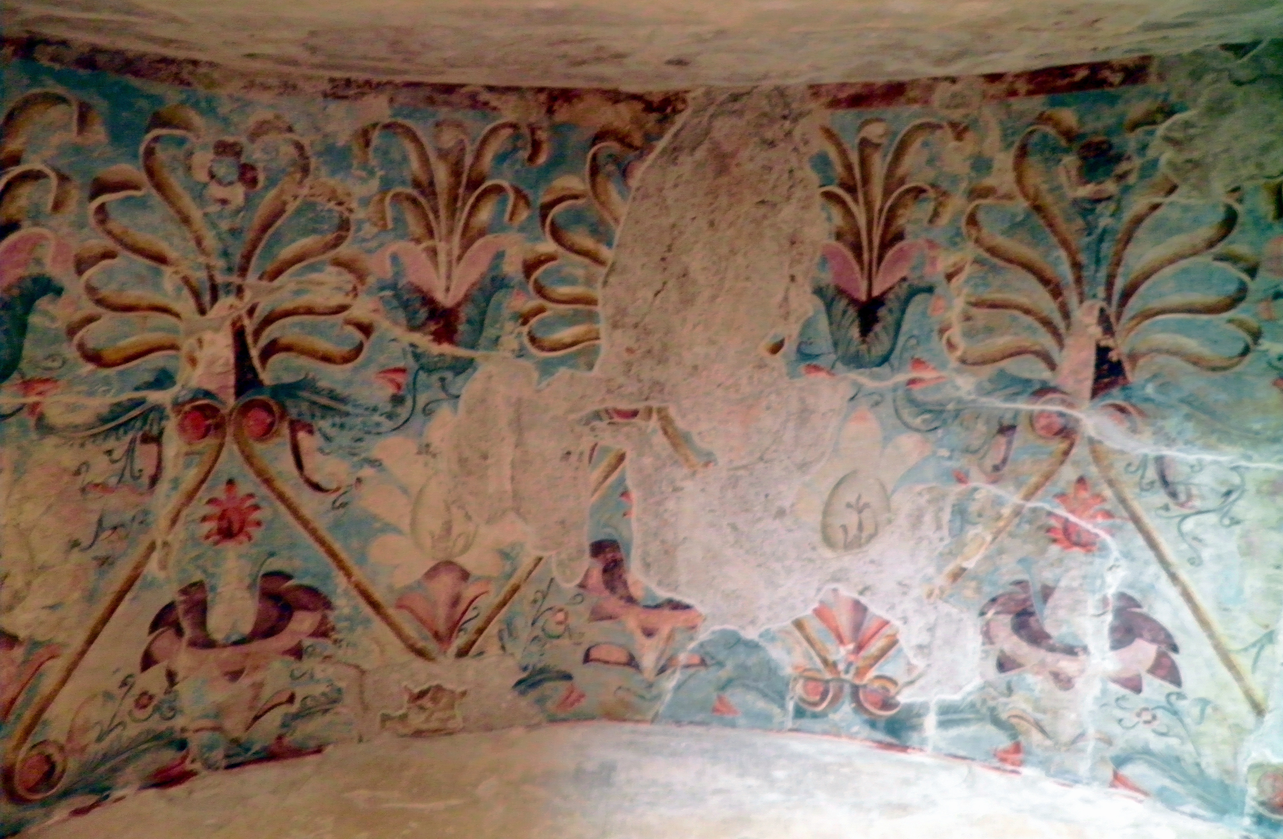 Detail of the decoration of the ceiling of the antechamber, The Tomb of the Palmettes, first half of the 3rd century BC, Ancient Mieza